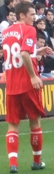 Adam Johnson.